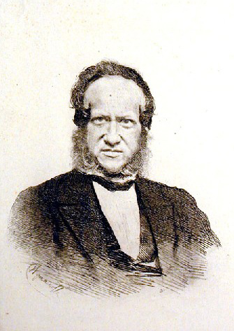 Ivan Nikolaevich Kramskoi. Portrait of Franz Ivanovich Ruprecht. Eauforte. Rybinsk State museum